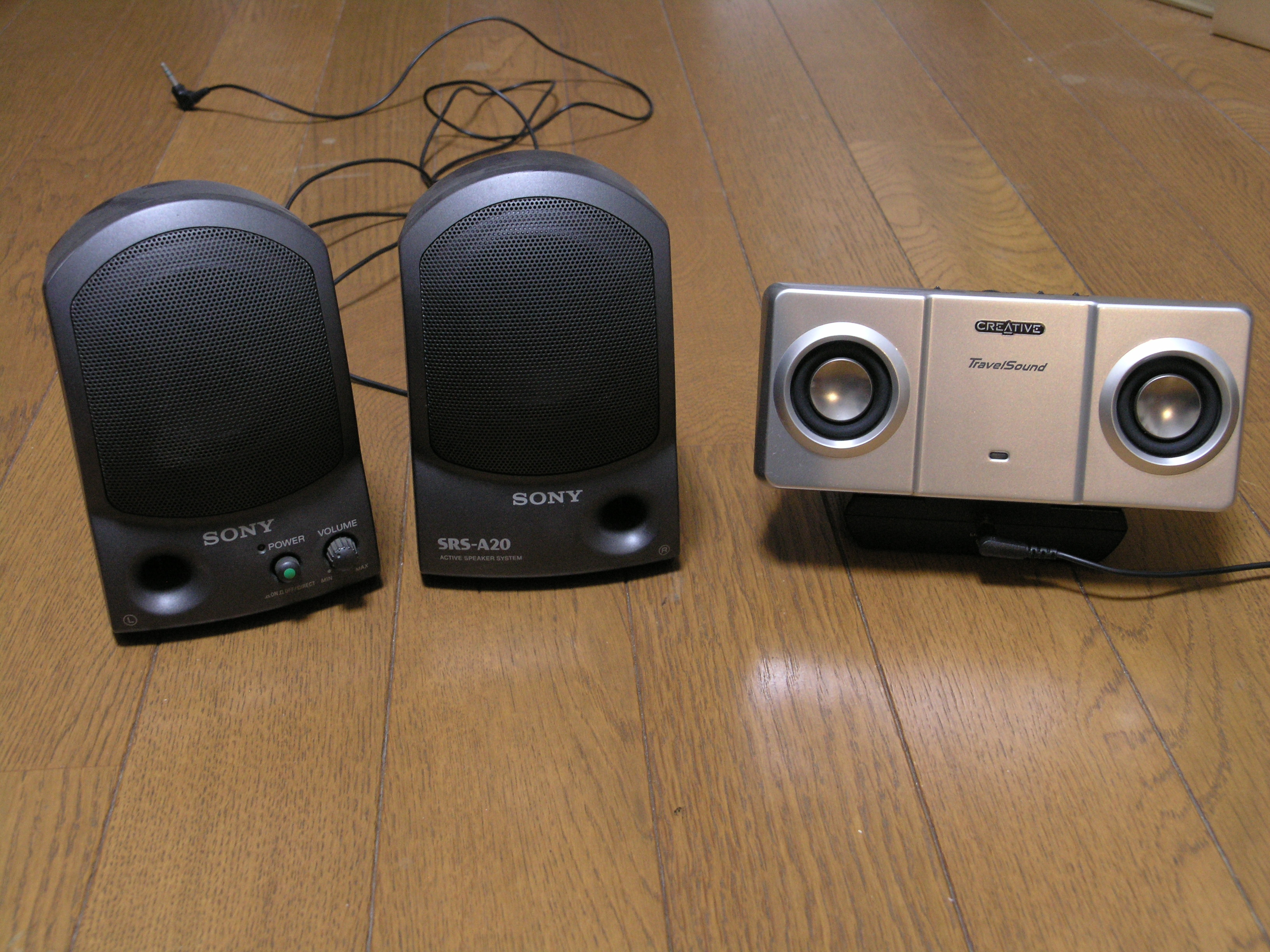 Active speakers Left : SONY SRS-A20, Right : Creative TravelSound 200